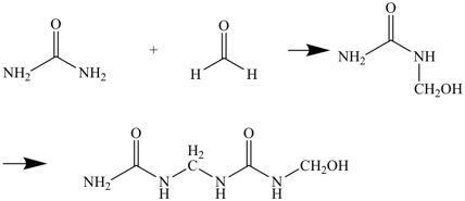 The basic reaction of urea and formaldehyde to create a urea-formaldehyde resin, followed by the condensation